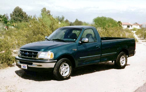 1997 Ford F-150 XLT